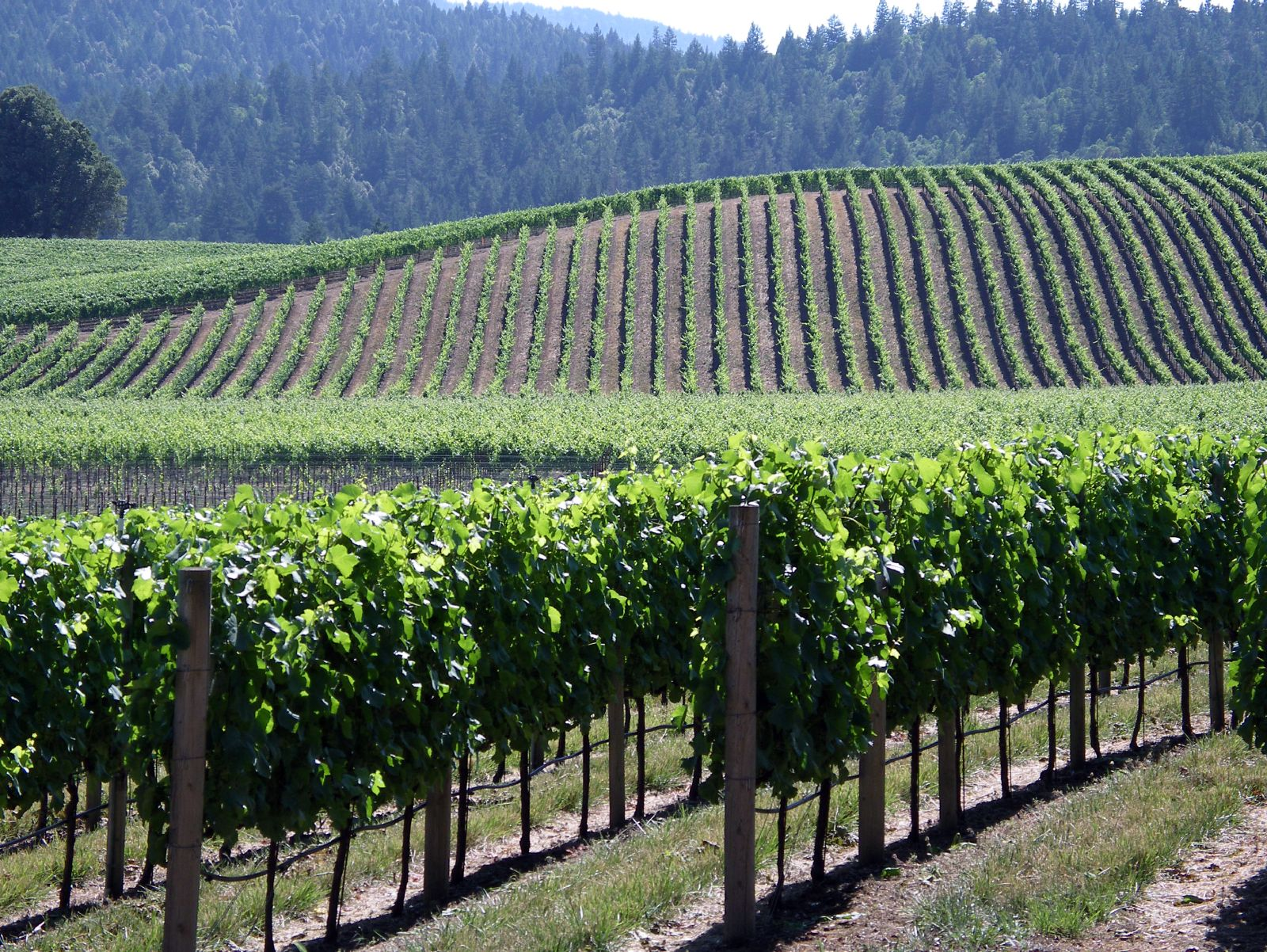 Vineyard in the California wine region of Anderson Valley in Mendocino county